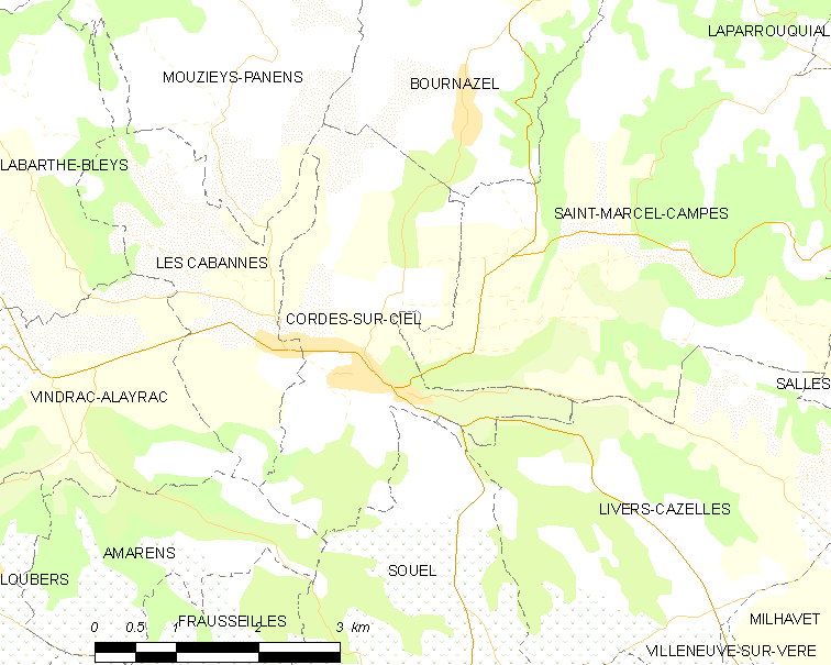 Map of French municipality Cordes-sur-Ciel